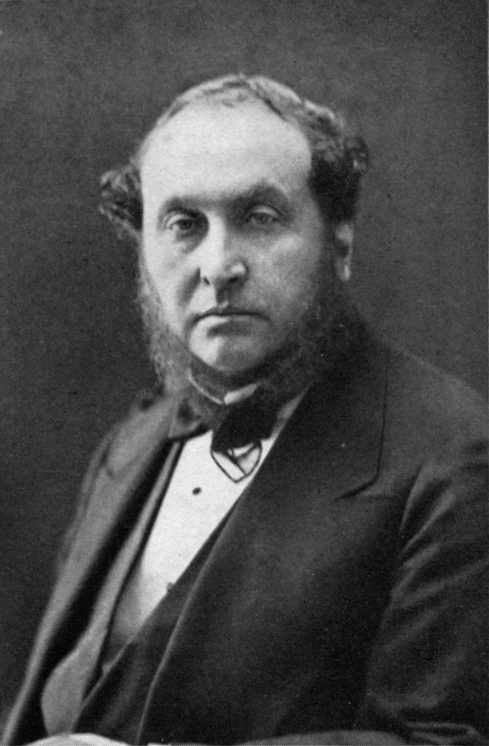 Michael Costa (1808–1884), Italian-born conductor and composer who was chief musical conductor at the Royal Italian Opera (now the Royal Opera House) in London from 1847 to 1868